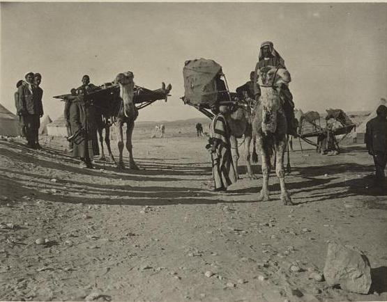 Kankalah stretchers with wounded from the Canal, 1915